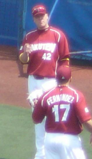 Kevin_Joseph_witt